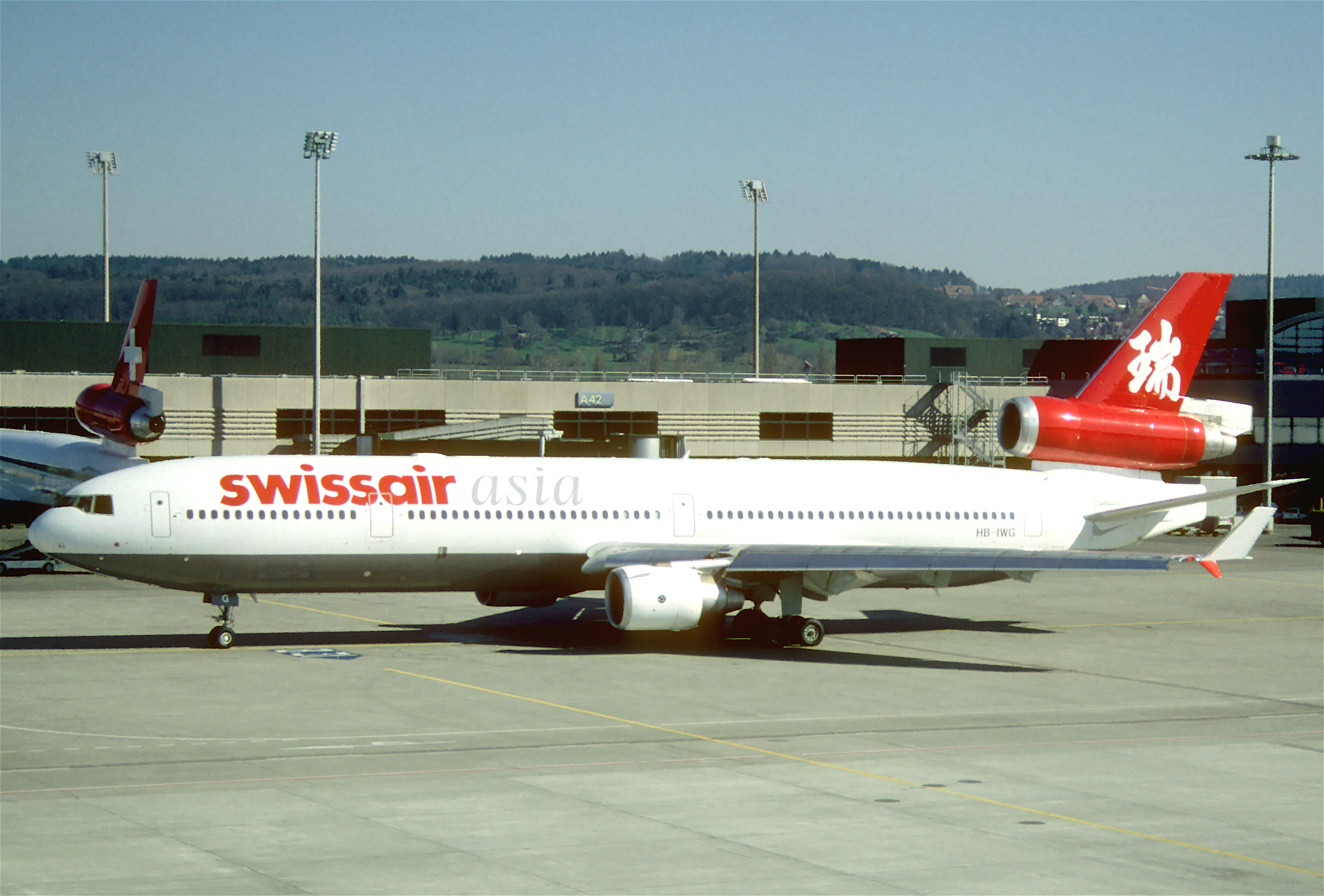 19/09/1991 Swissair HB-IWG 31/03/2002 Swiss International Airlines HB-IWG stored at Mojave 14/05/02 20/07/2005 UPS N282UP